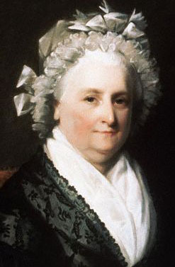 Painting of Martha Dandrige Washington, wife of first US president George Washington. Oil on canvas. Held by the National Portrait Gallery, Smithsonian Institution, Ref. NPG.70.3